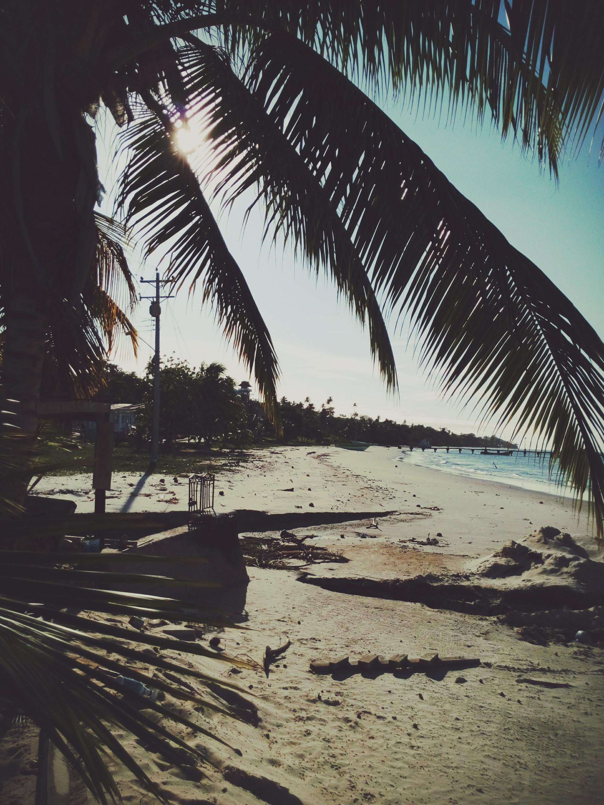 Cedros Beach, Cedros, Siparia, Trinidad and Tobago.